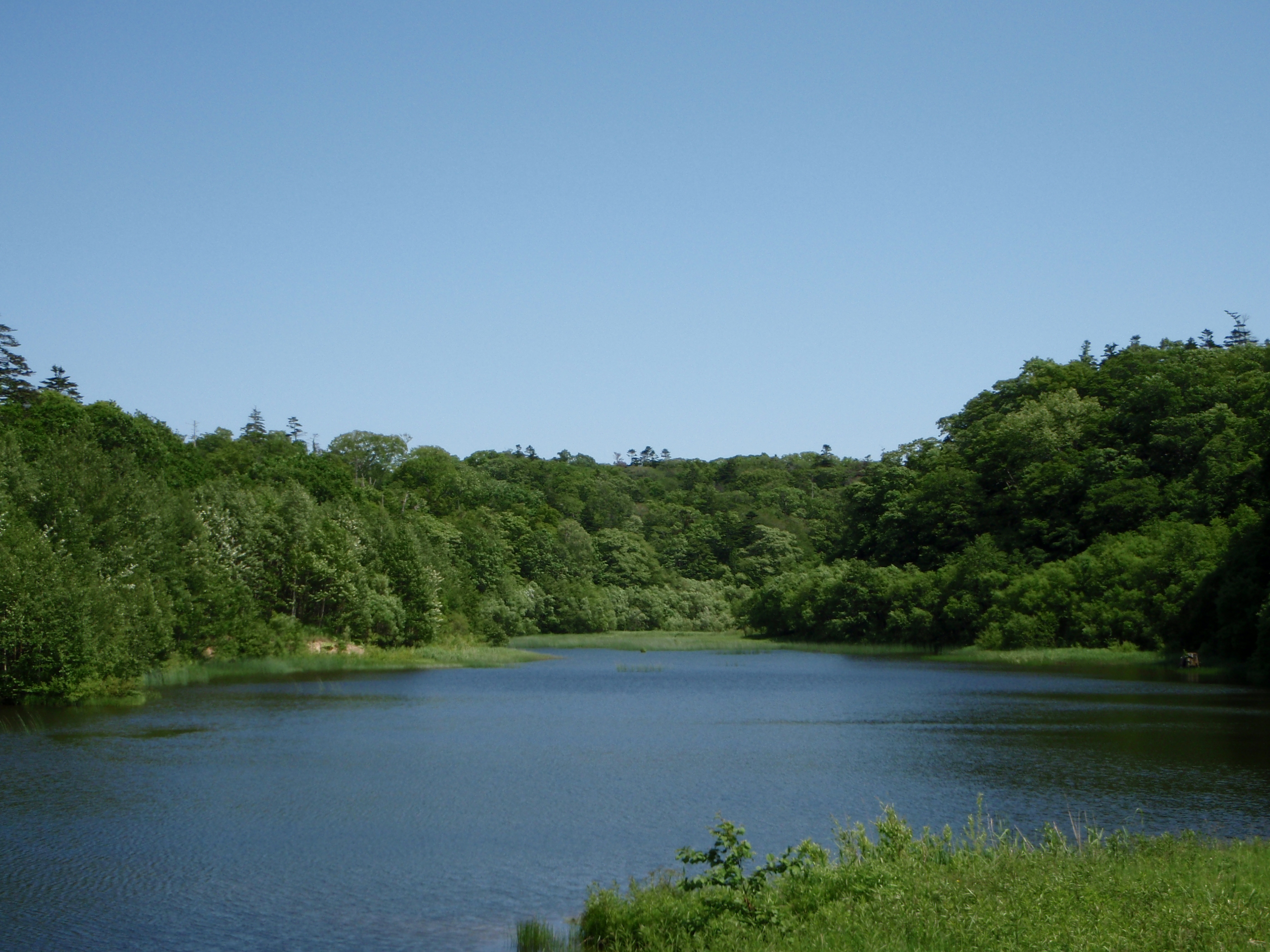 Lake Mizuhoike in Nopporo Shinrin Park, Ebetsu, Hokkaido.